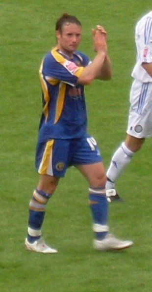 Ben Davies, photograph taken by 03x072 on August 9, 2008. To be added to Ben Davies.